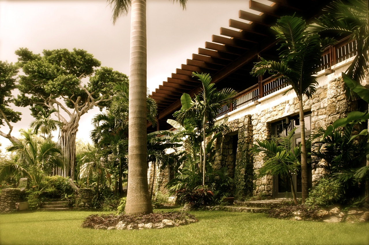 View of Strang Residence (Rockhouse) in Coconut Grove —by Architect Max Strang.